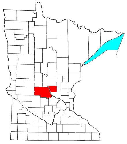 Locator map of the St. Cloud Metropolitan Statistical Area in the central part of the U.S. state of Minnesota.